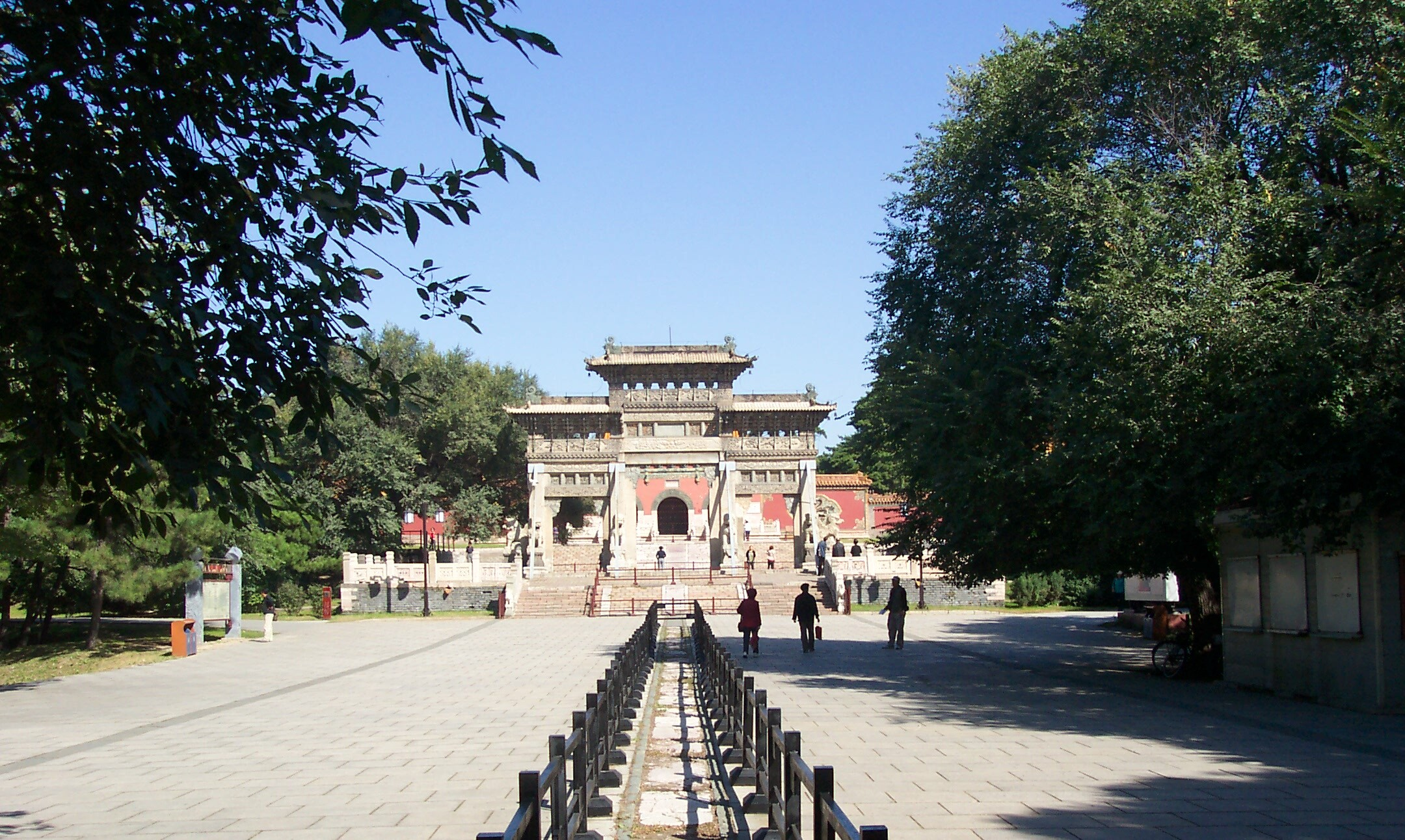 Emperor's Path in the Zhao Mausoleum (Qing Dynasty)